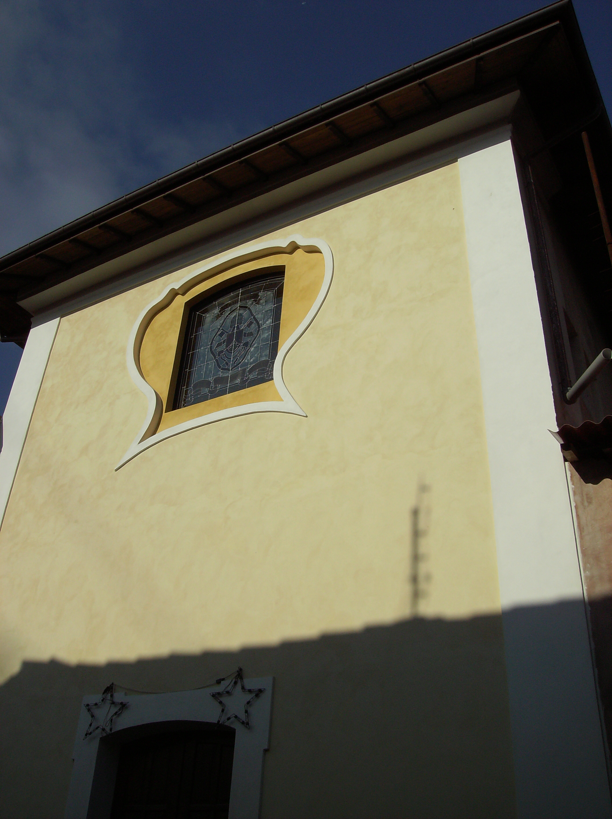 Saint Anthony Church - Busto Arsizio (Borsano)